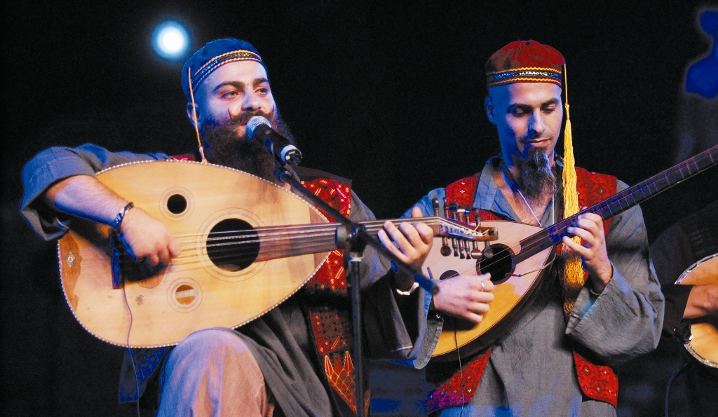 The Chehade Brothers in concert